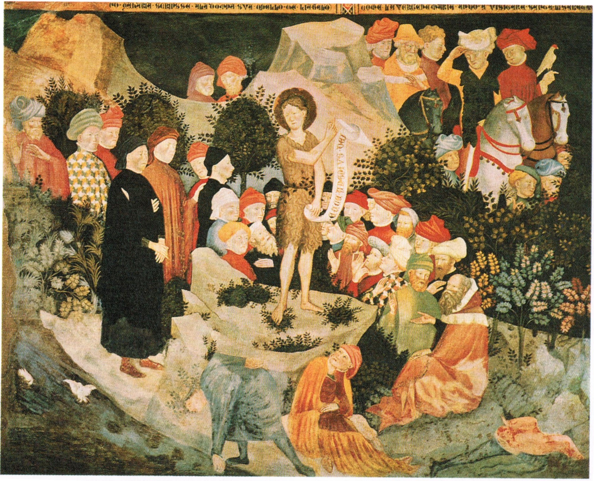 Sermon of John the Baptist. Fresco in Oratorio di San Giovanni, Urbino